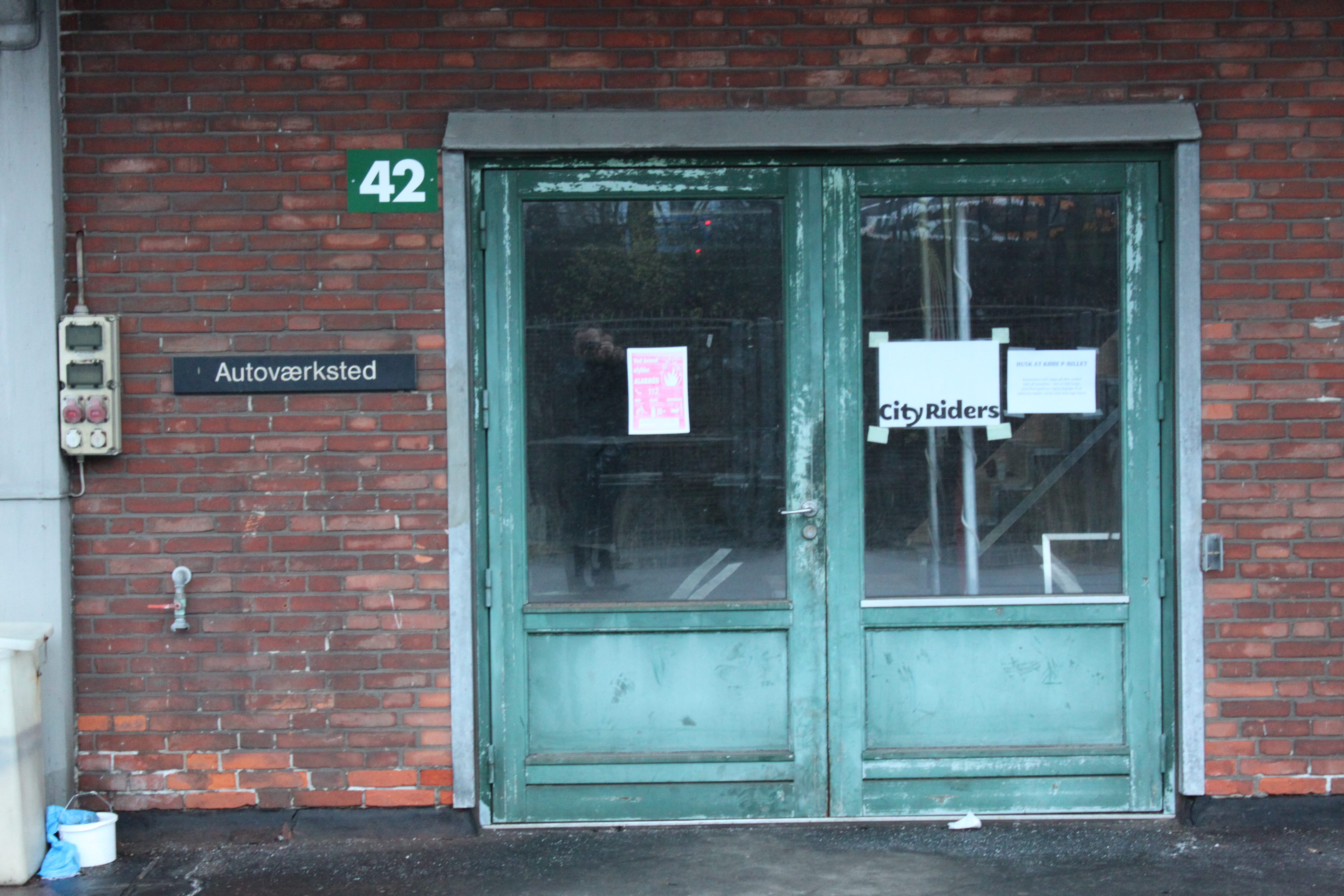 Former freight train station Hof at Carlsberg Brewery in Valby, Copenhagen, Denmark. New meets old, the street number sign "42" is from the adressing of the now public area, while "autoværksted" is an internal sign from the closed area.